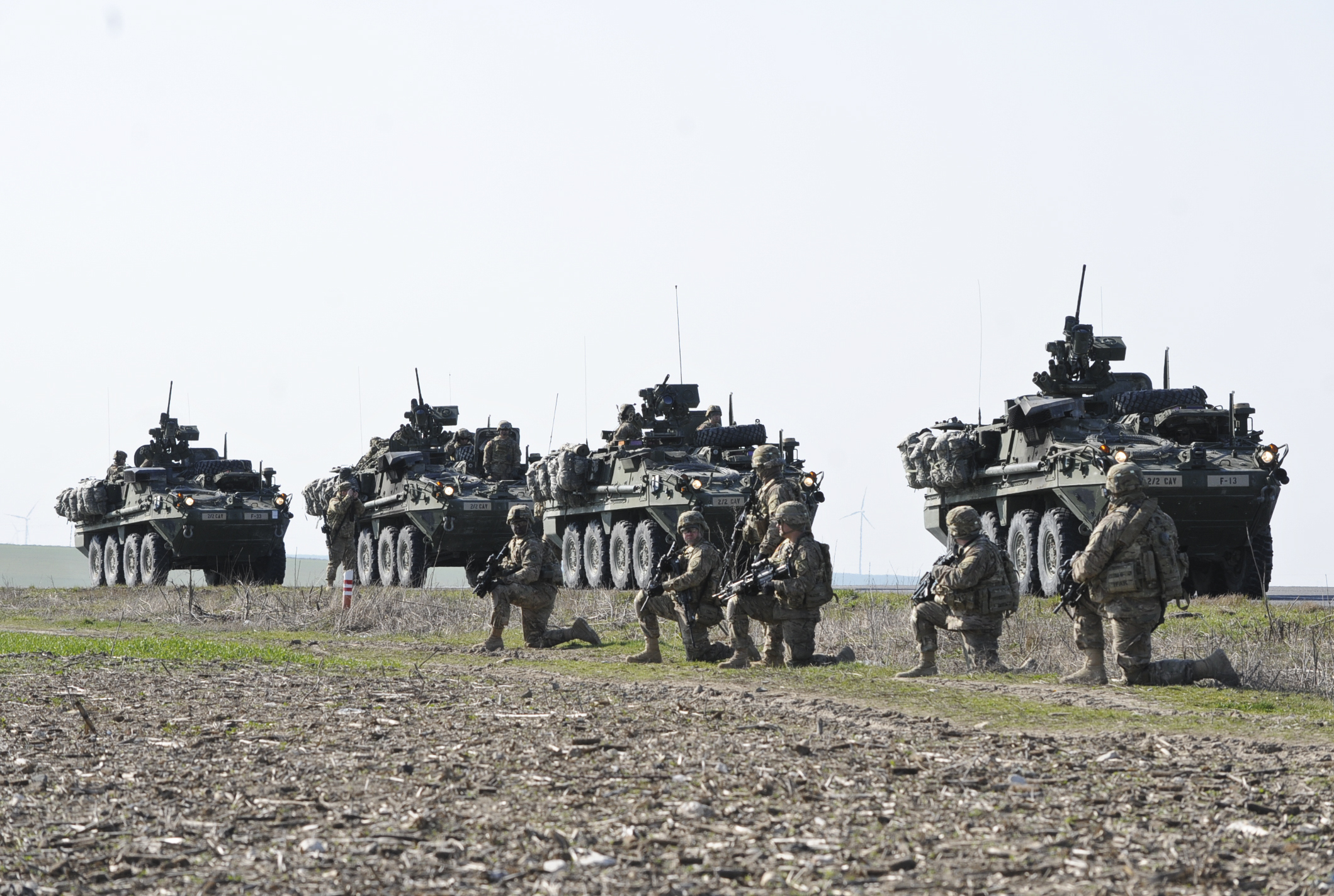 Troopers assigned to Fox Troop, 2nd Squadron, 2nd Cavalry Regiment set up a tactical perimeter during a brief stop along the unit's tactical road march from Mihail Kogalniceanu Airbase to Smardan Training Area, Romania, in support of Operation Atlantic Resolve, Mar. 24, 2015. Once the unit reaches Smardan Training Area, they will conduct a forward passage of lines with the Brigade Special Troops Battalion assigned to 173rd Airborne Brigade Combat Team, in preparation for Operation Windspring, a multinational, bilateral training event that supports Operation Atlantic Resolve. (U.S. Army photo by Sgt. William A. Tanner/released)